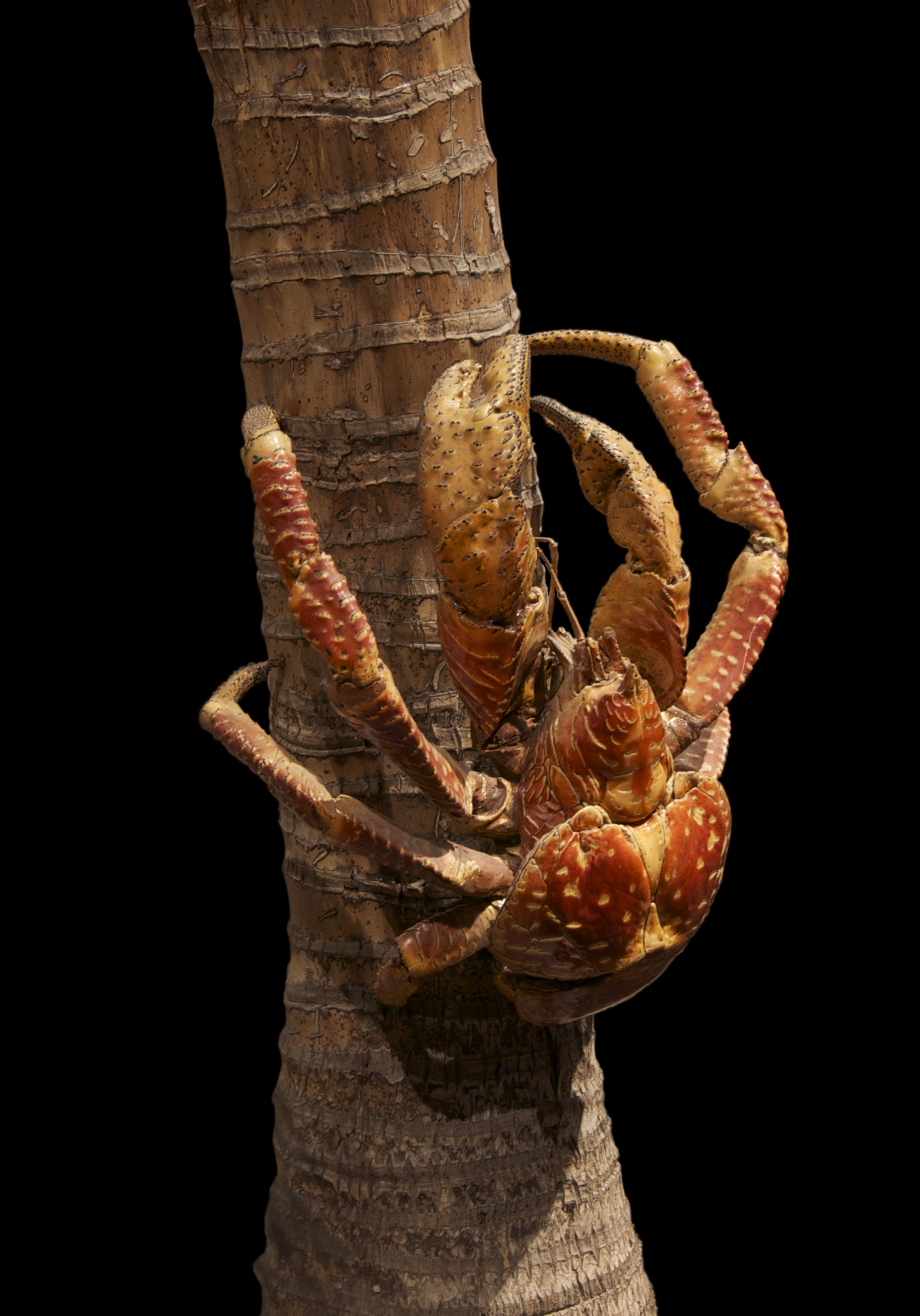 Birgus latro (Linnaeus 1777), stuffed specimen, Museum d'Histoire Naturelle de La Rochelle, France